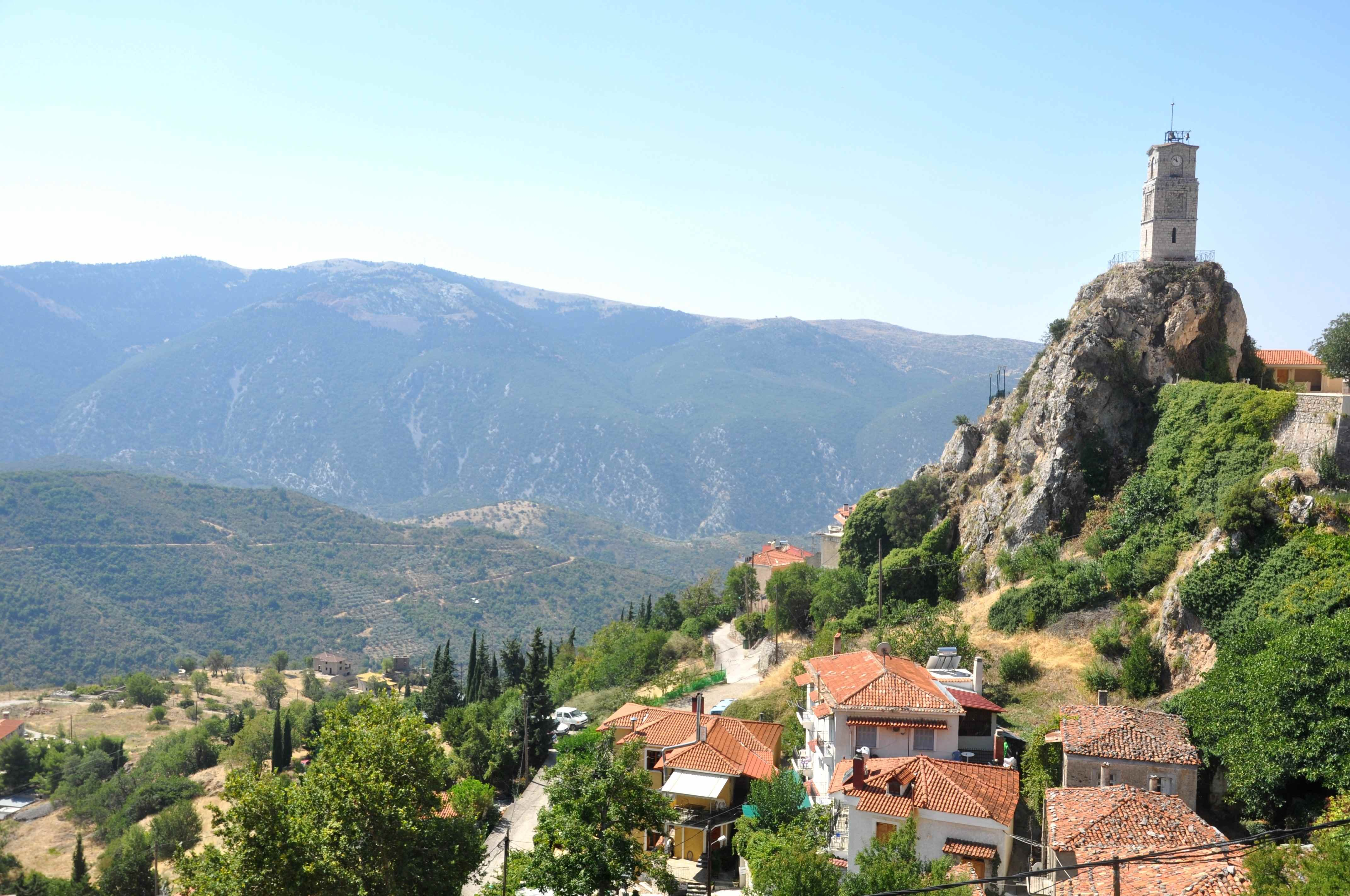 Area of Delphi, Greece